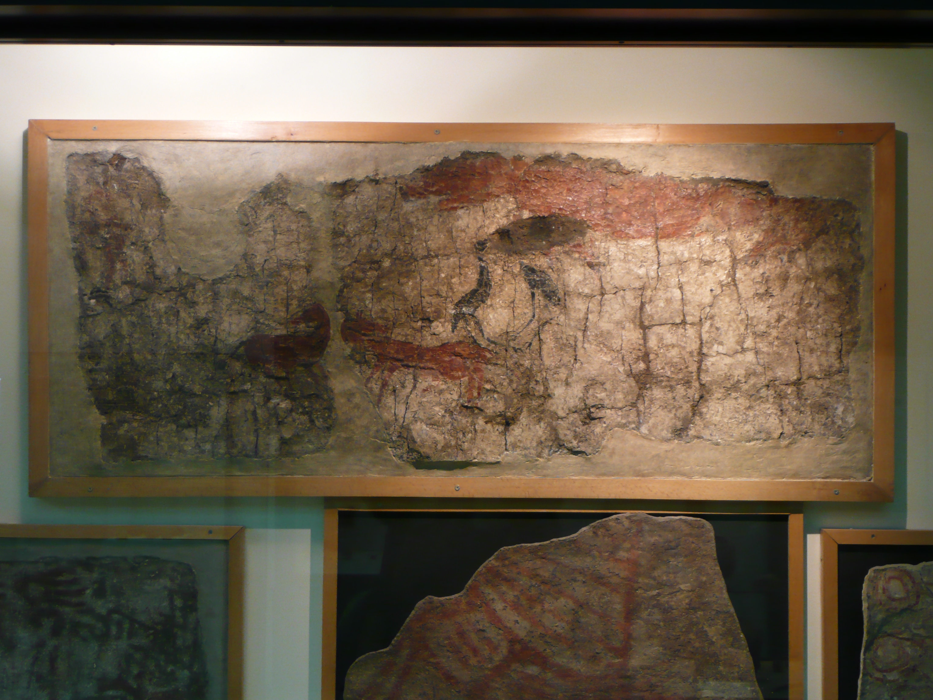 The Museum of Anatolian Civilizations is situated in Ankara, Turkey. It is one of the leading museums in the world for its unique collection of the ancient history of Anatolia.